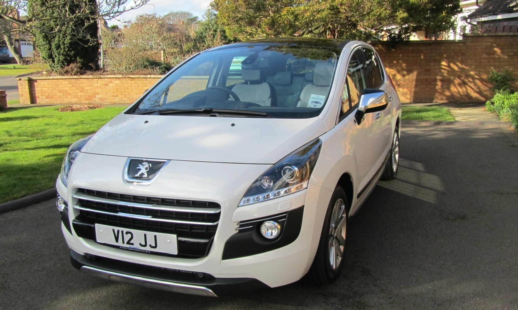 2012 Peugeot 3008 HYbrid4 Limited Edition UK model